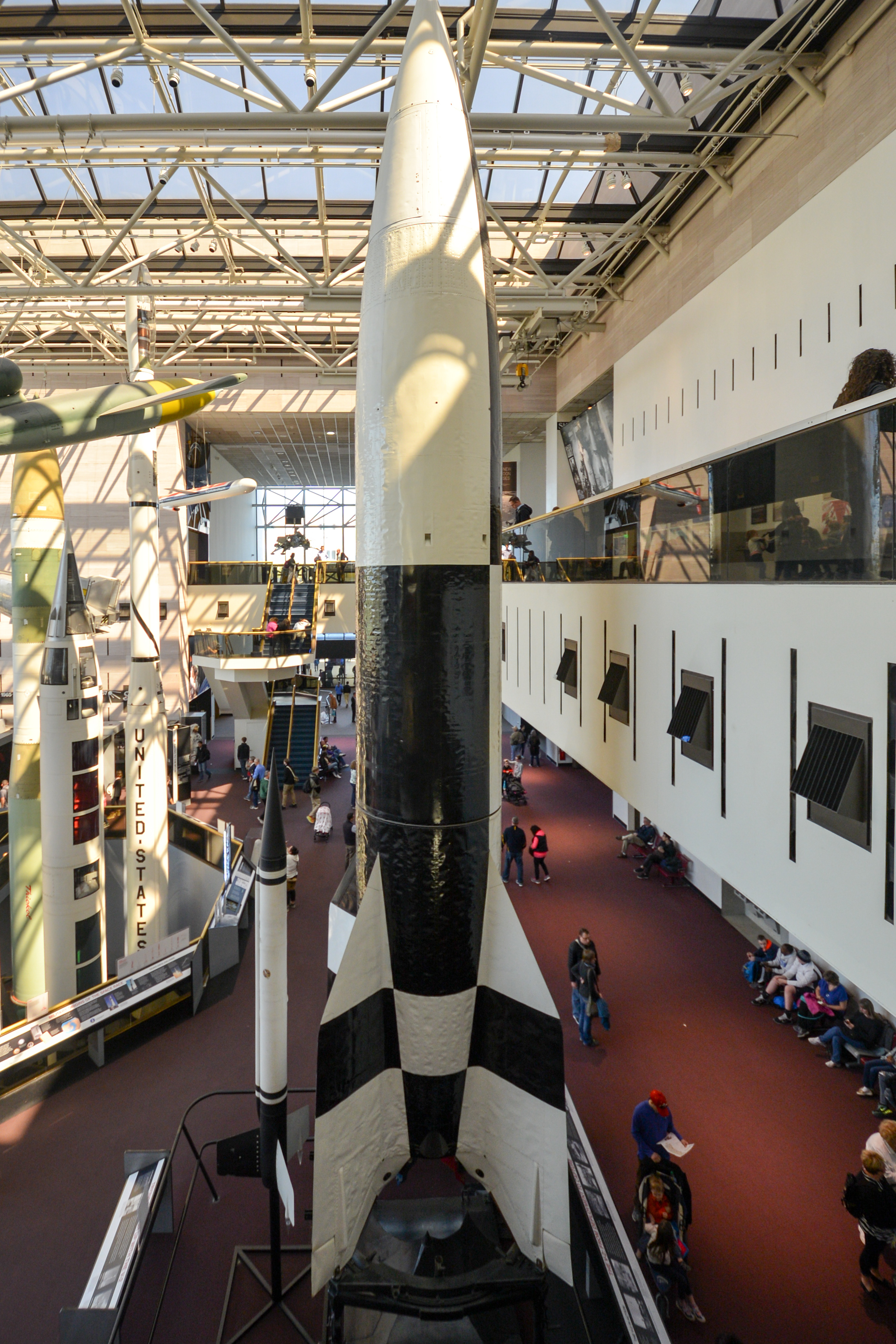 02806-National-Air-and-Space-Museum